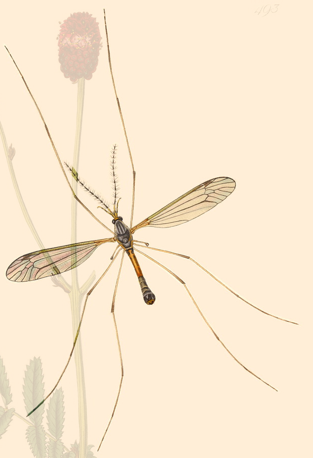 Male of Tipula flavolineata.